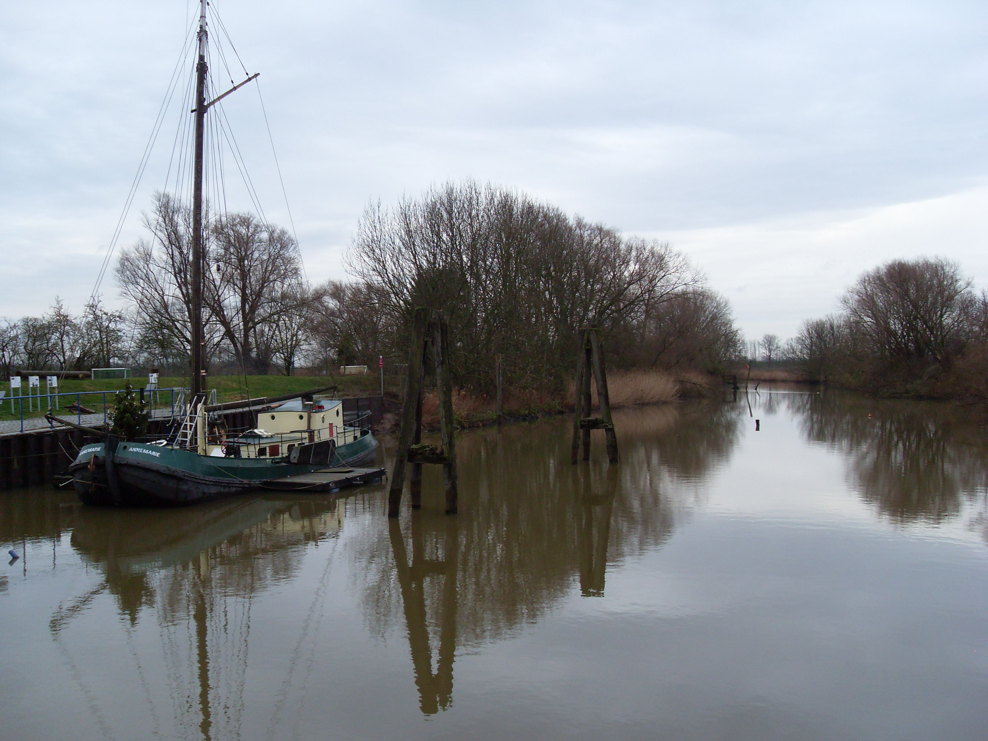 Borsteler Hafen, part of the nature reserve "Borsteler Binnenelbe und Großes Brack" with the museum ship "Annemarie" (Jork, Lower Saxony, Germany)